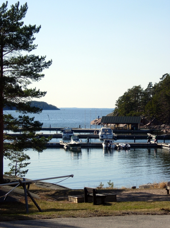 Airisto holiday resort in Parainen, Finland.